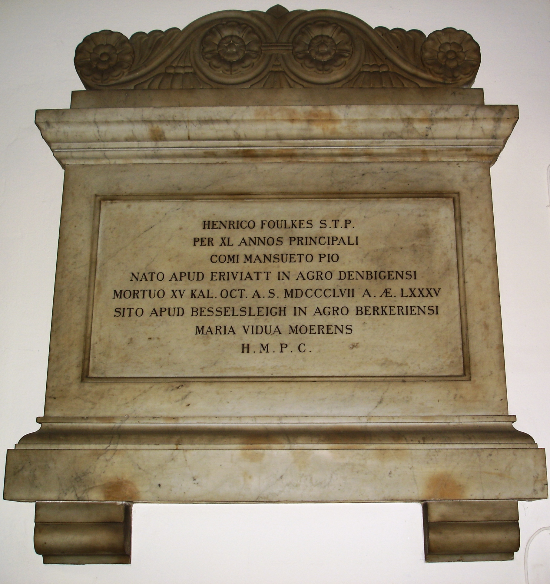 The memorial to John Lloyd (Bishop of St David's) in the chapel of Jesus College, Oxford